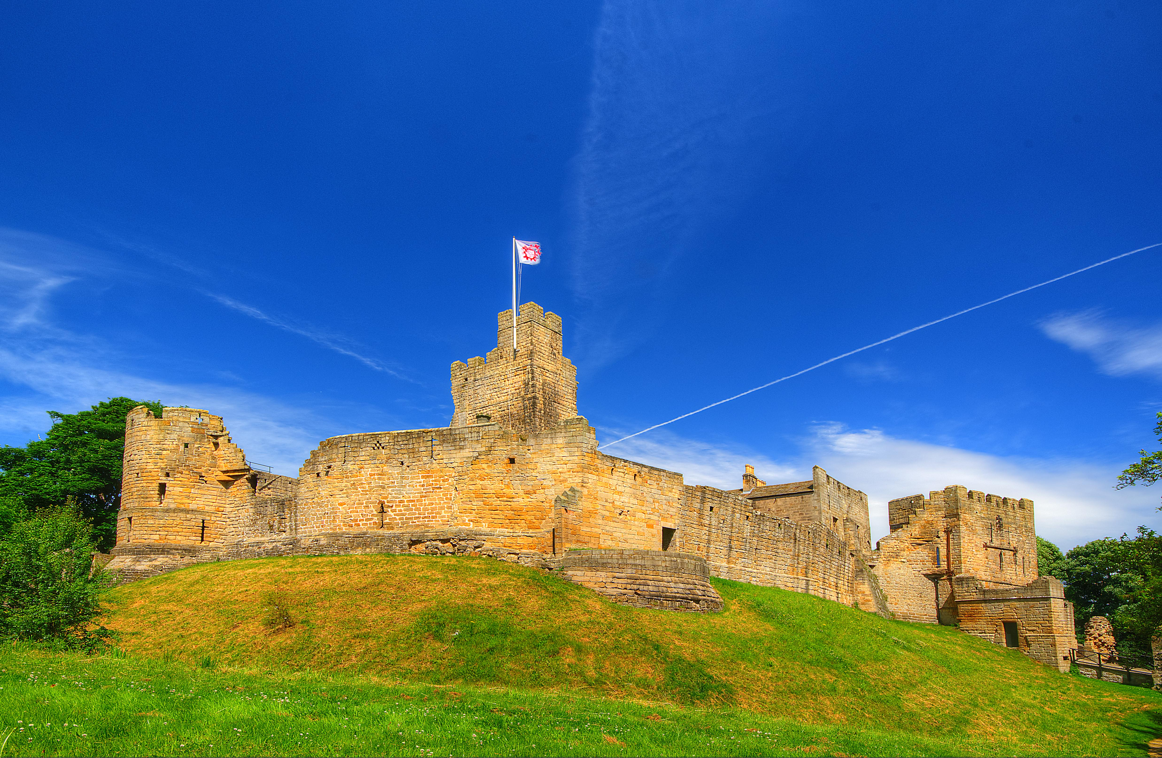 Prudhoe Castle Wikidata has entry Q4185858 with data related to this item.